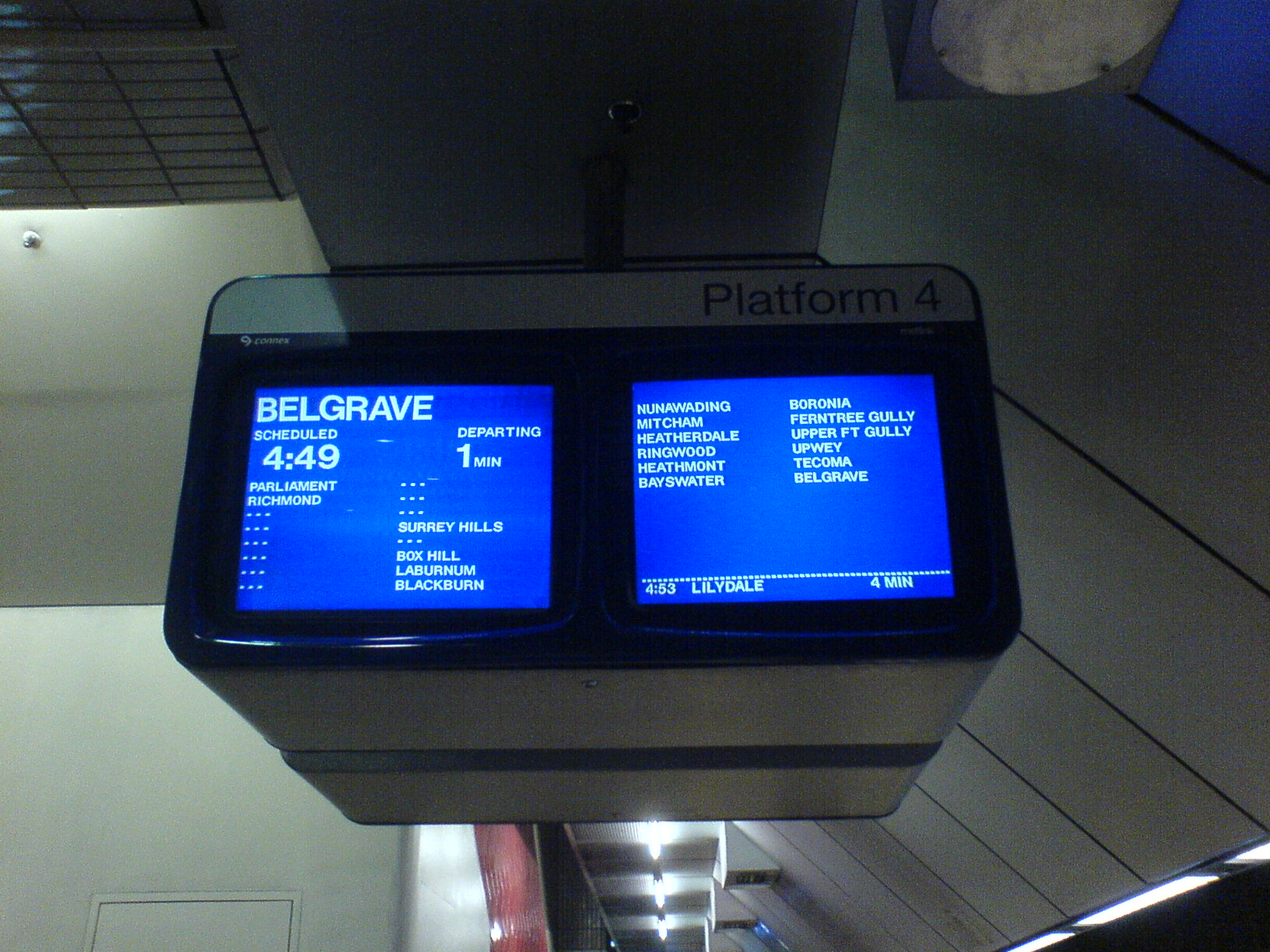 It's like THE perfect train. It like skips every station to Surrey Hills. Even that annoying Camberwell. I wish all my trains where like this one.